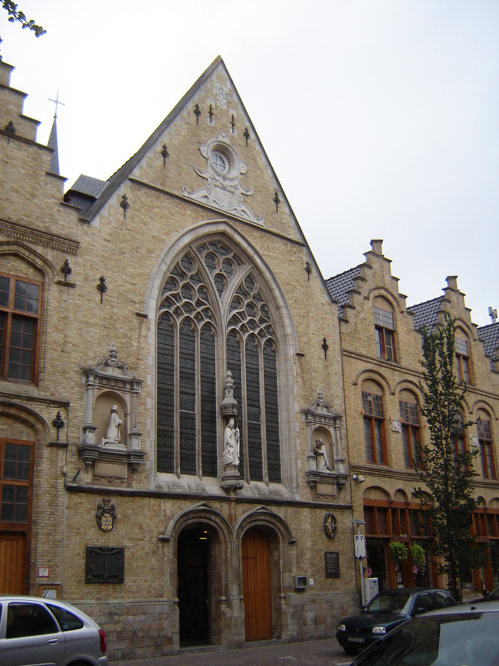 Bellegodshuis in Ieper, West Flanders, Belgium